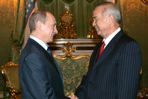 THE KREMLIN, MOSCOW. With Uzbekistan President Islam Karimov.